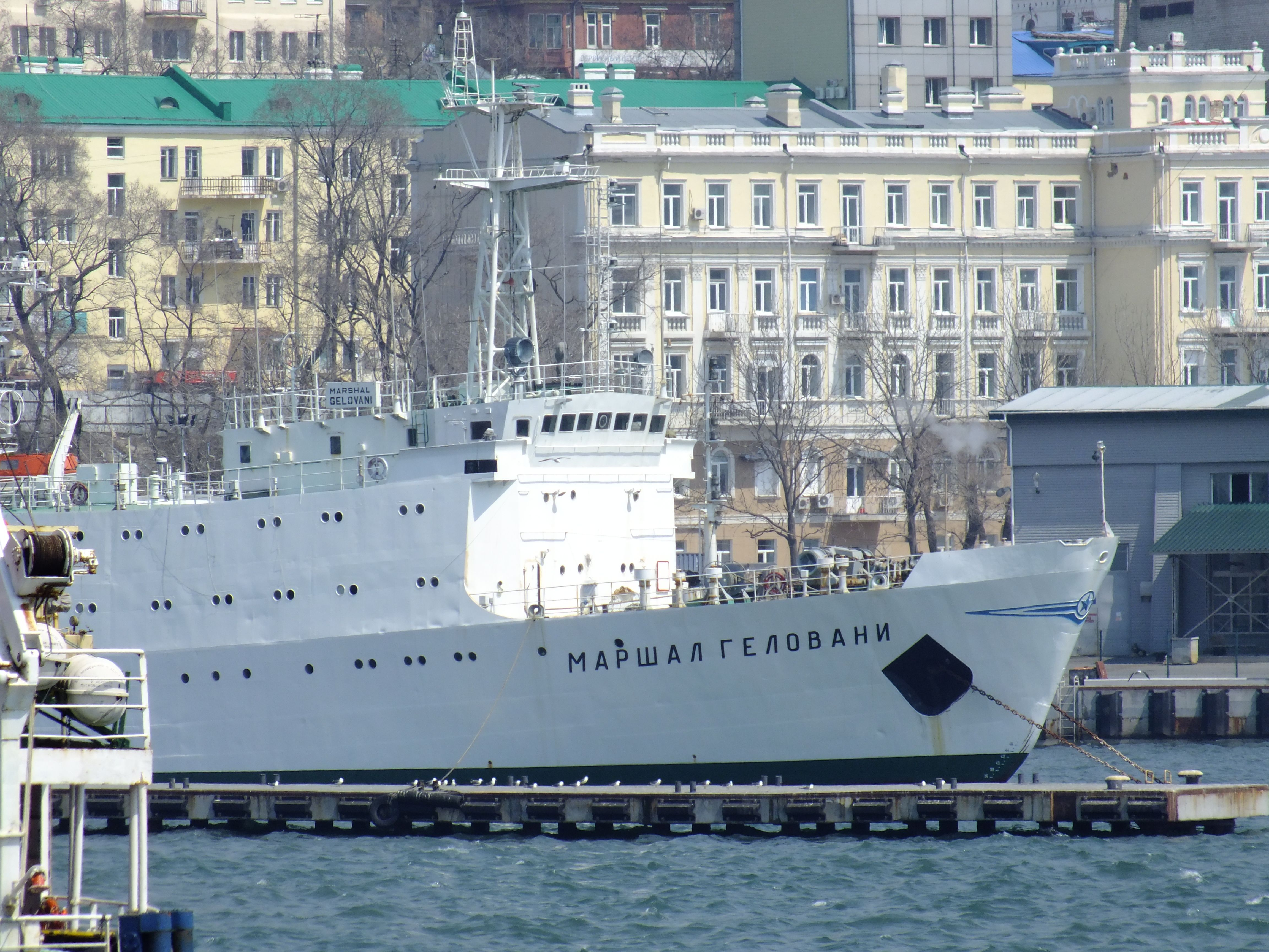 Pacific fleet of Russia